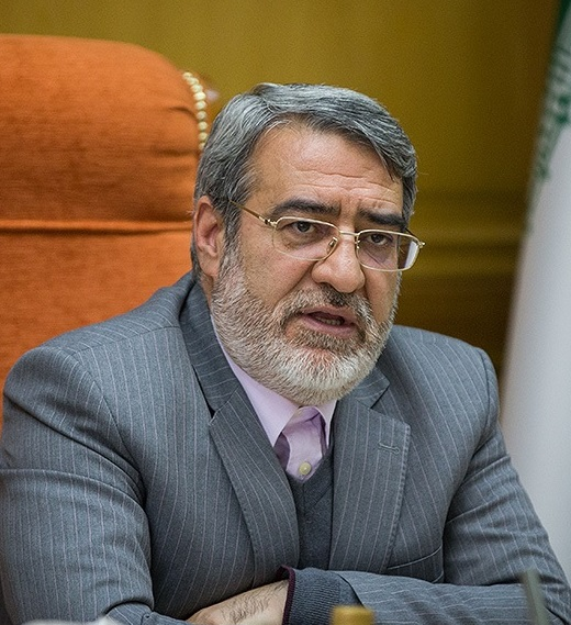 Abdolreza Rahmani Fazli